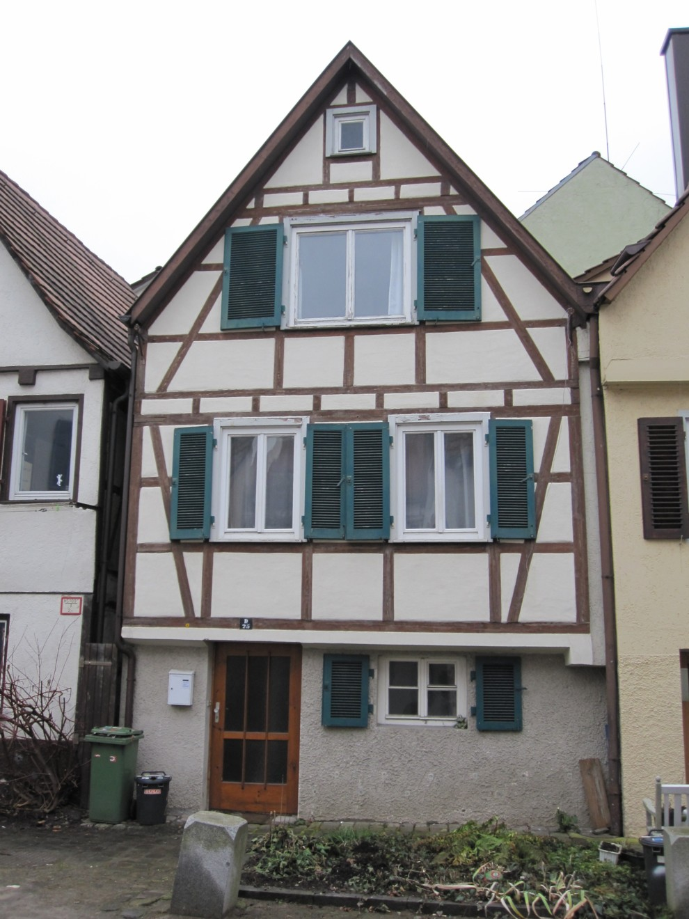 Typical building of the Unterstadt of the German city of Tübingen